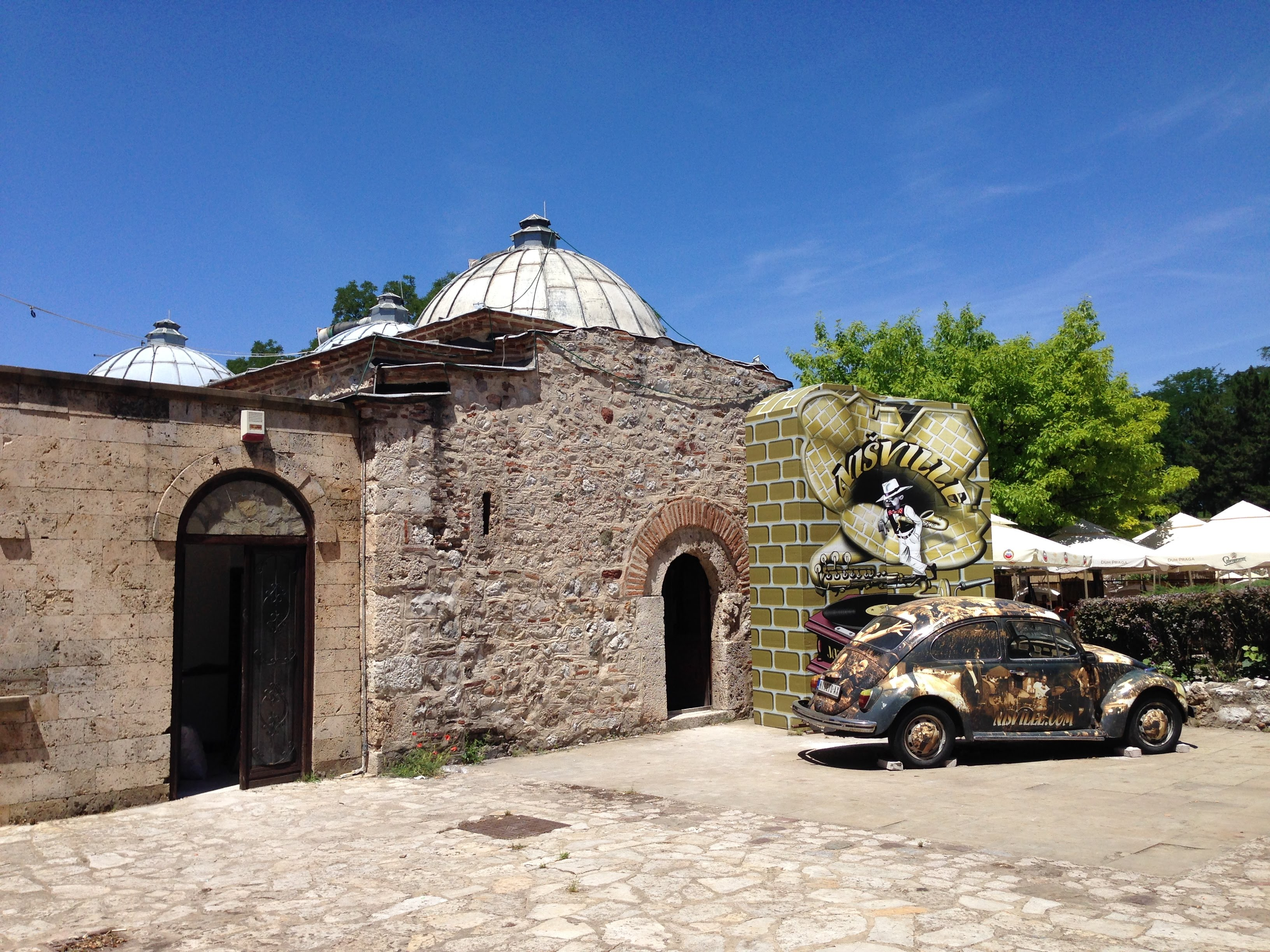 Nisville Jazz Museum.